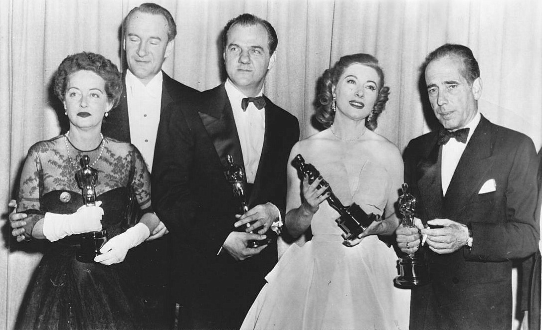 From left to right: Bette Davis, George Sanders, Karl Malden, Greer Garson & Humphrey Bogart during at the 24th Oscars (1952).